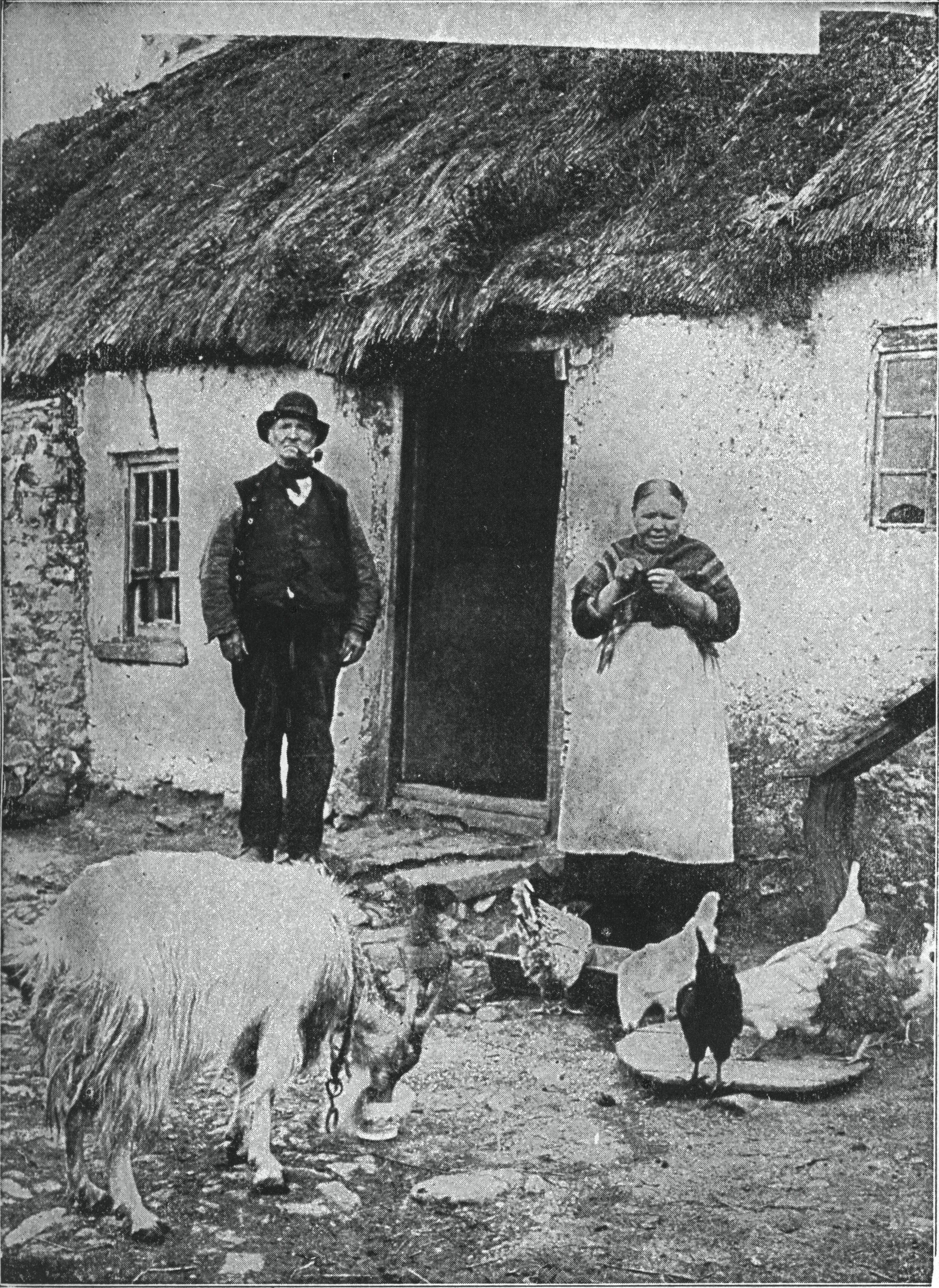 This is an image or page from The How and Why Library, a book first published in the United States in 1909. Location: The Miraculous Pitcher, between pages 40 and 41